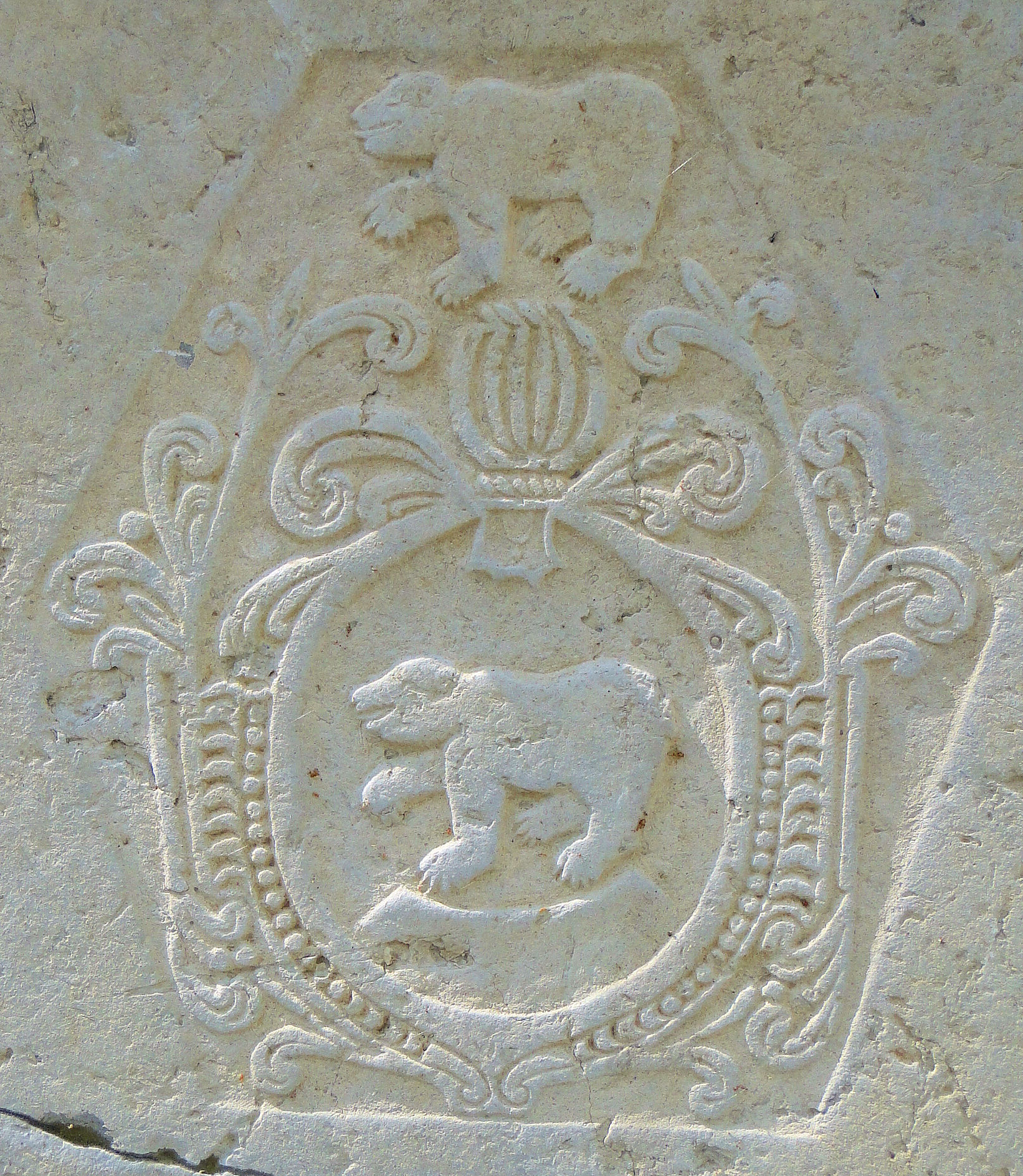 Coat of arms at ledger stone of Cord von Behr at Klosterhauptmannshaus in Dobbertin, district Parchim, Mecklenburg-Vorpommern, Germany